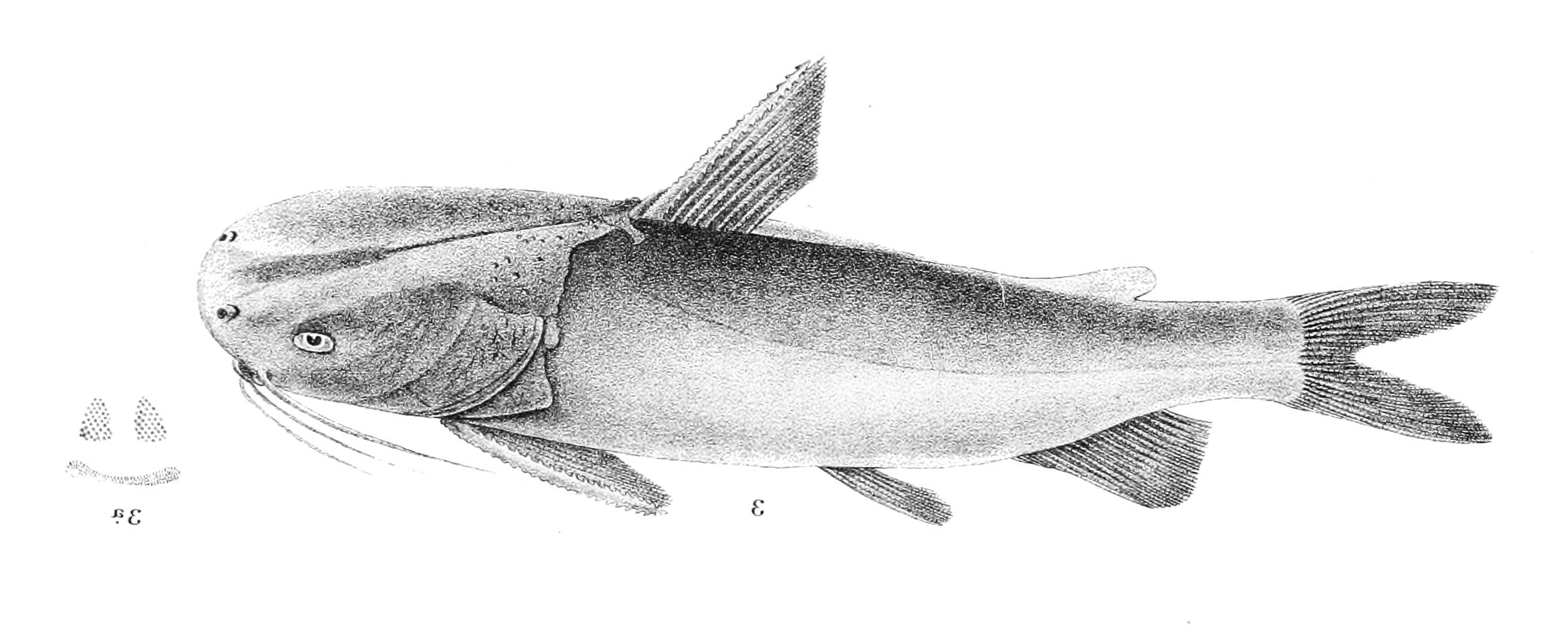 Plicofollis platystomus syn. Arius platystomusThe species names / identity need verification. The original plates showed the fishes facing right and have been flipped here. Arius platystomus